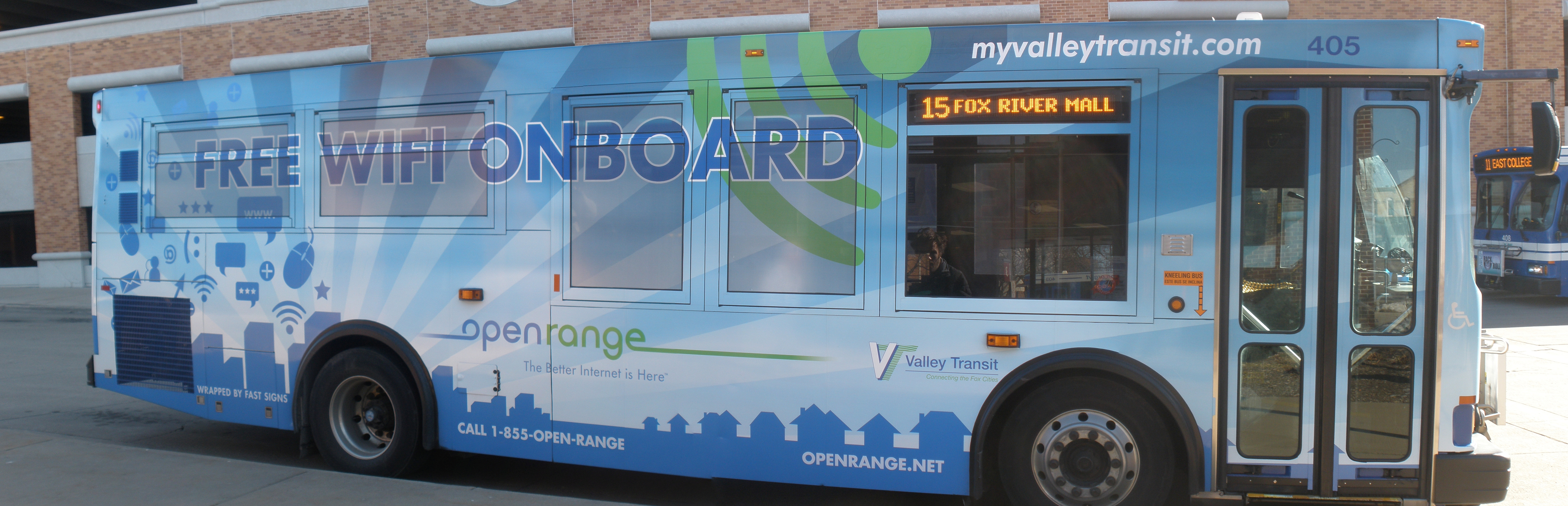 Valley Transit/Open Range bus on route #15.